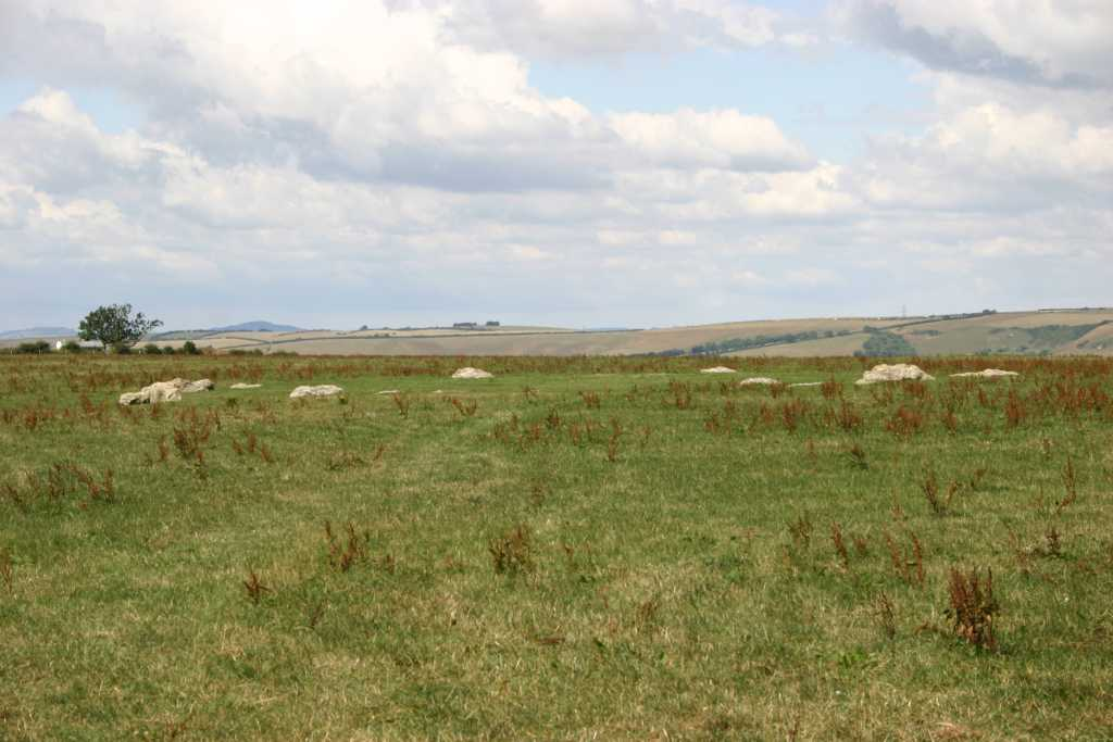 Kingston Russell stone circle, Dorset, England